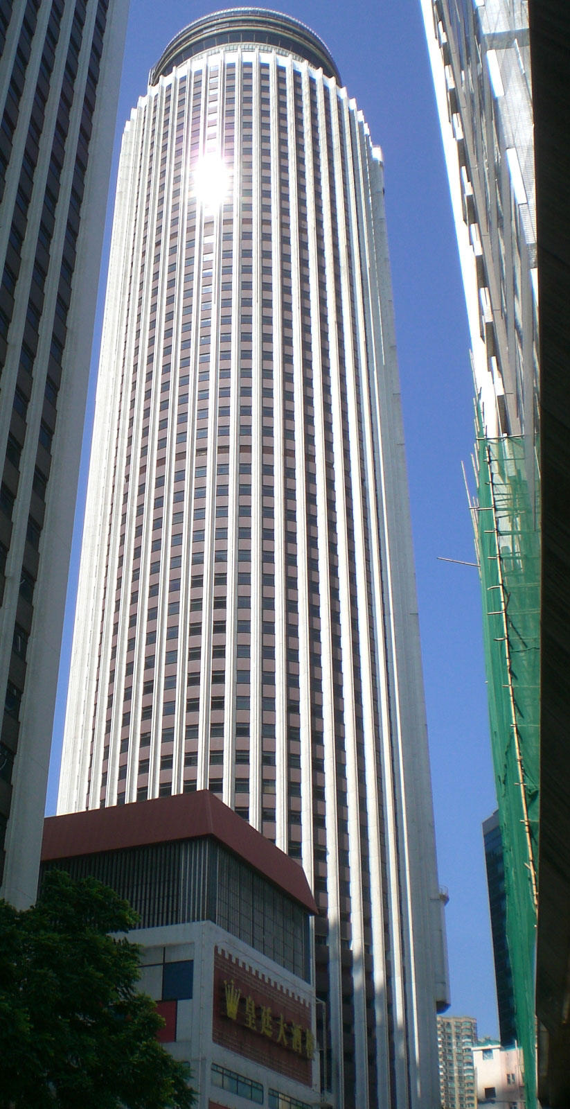 灣仔zh:皇后大道東望zh:合和中心